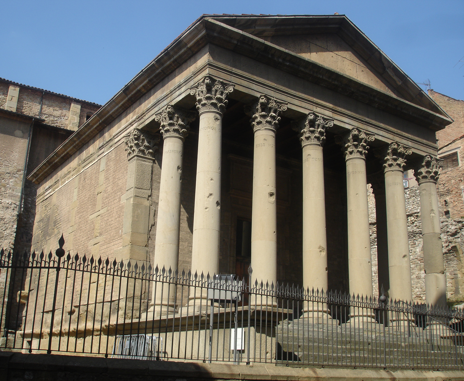 Ancient roman temple of Vic (Vic, Osona, Catalonia, Spain).